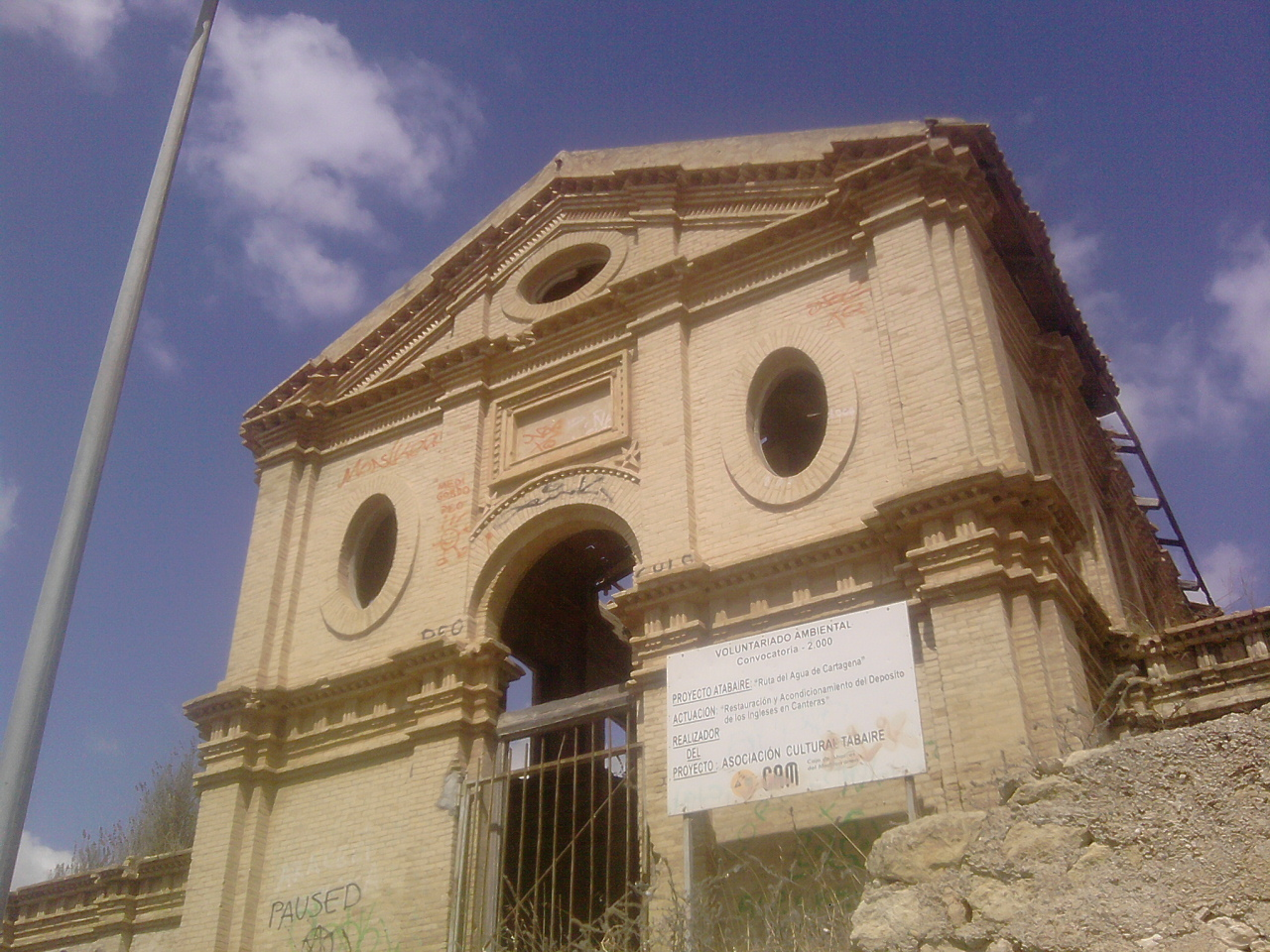 Front facade of Canteras water tank (Cartagena, Spain).